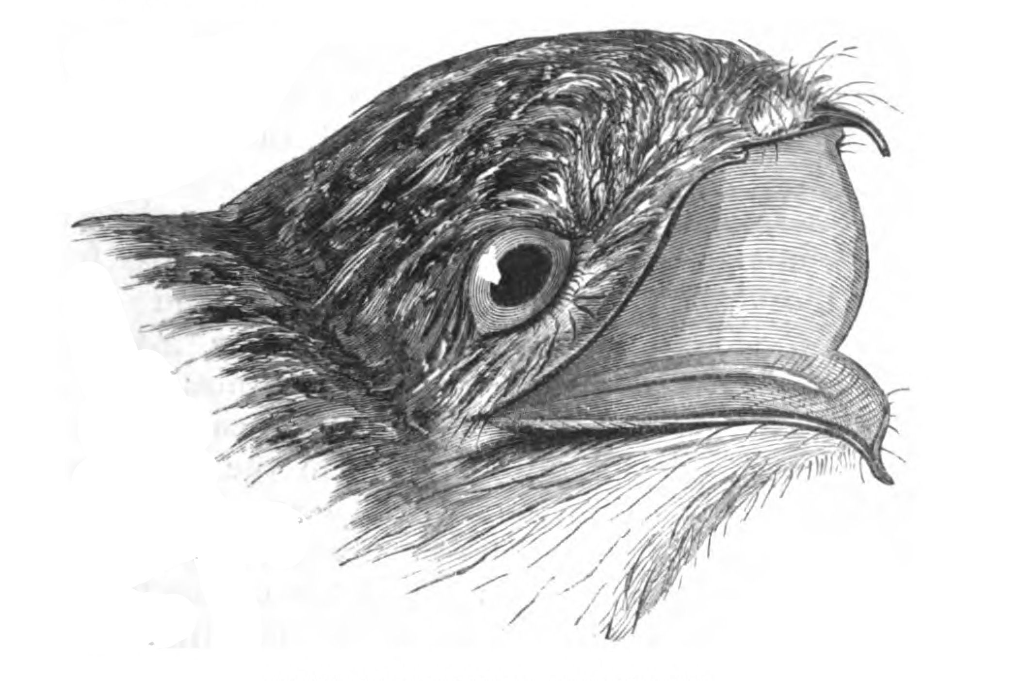 Head of Nyctibius jamaicensis. Image from Natural History, Birds.